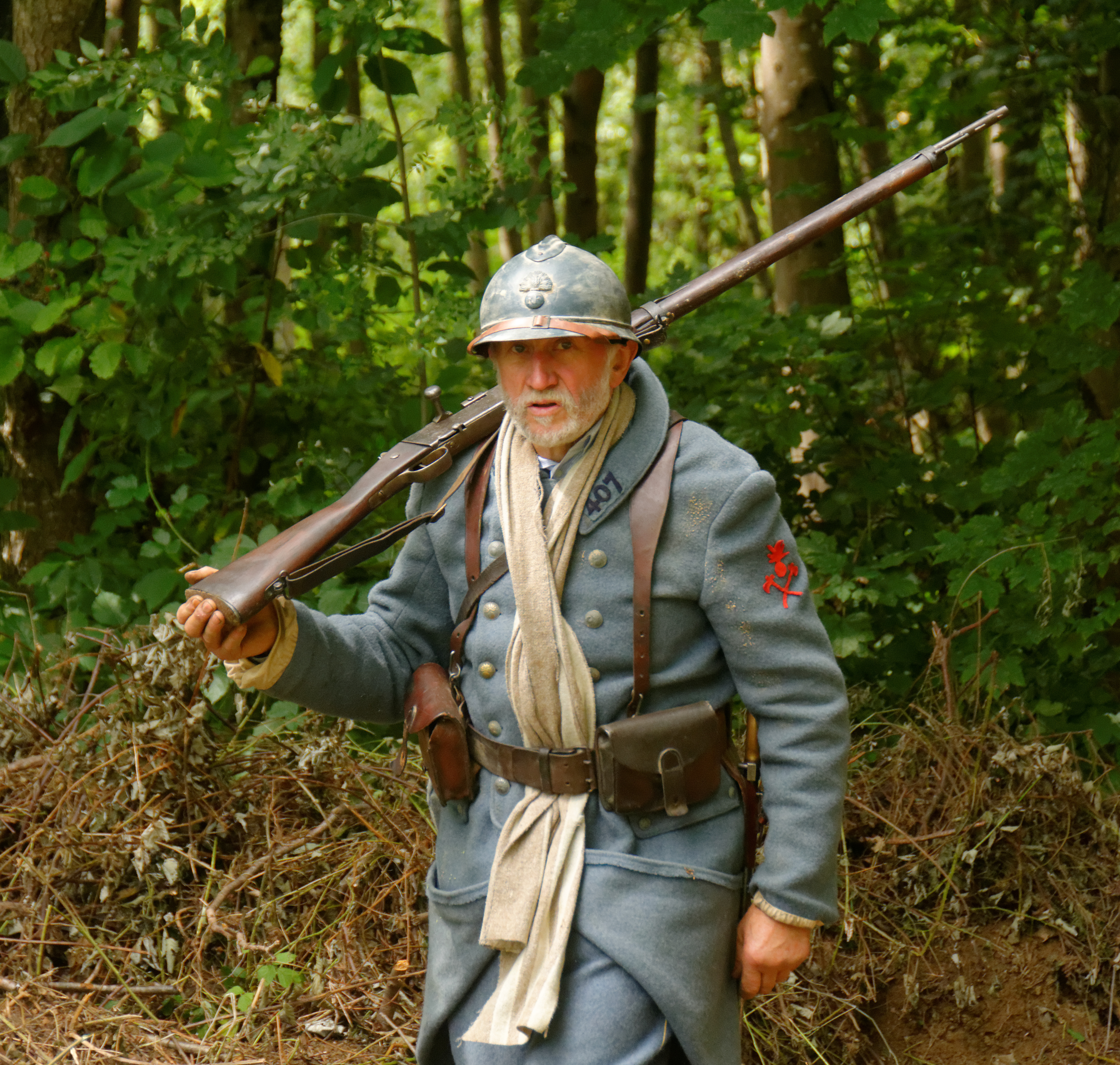 Personality rights warningAlthough this work is freely licensed or in the public domain, the person(s) shown may have rights that legally restrict certain re-uses unless those depicted consent to such uses. In these cases, a model release or other evidence of consent could protect you from infringement claims.